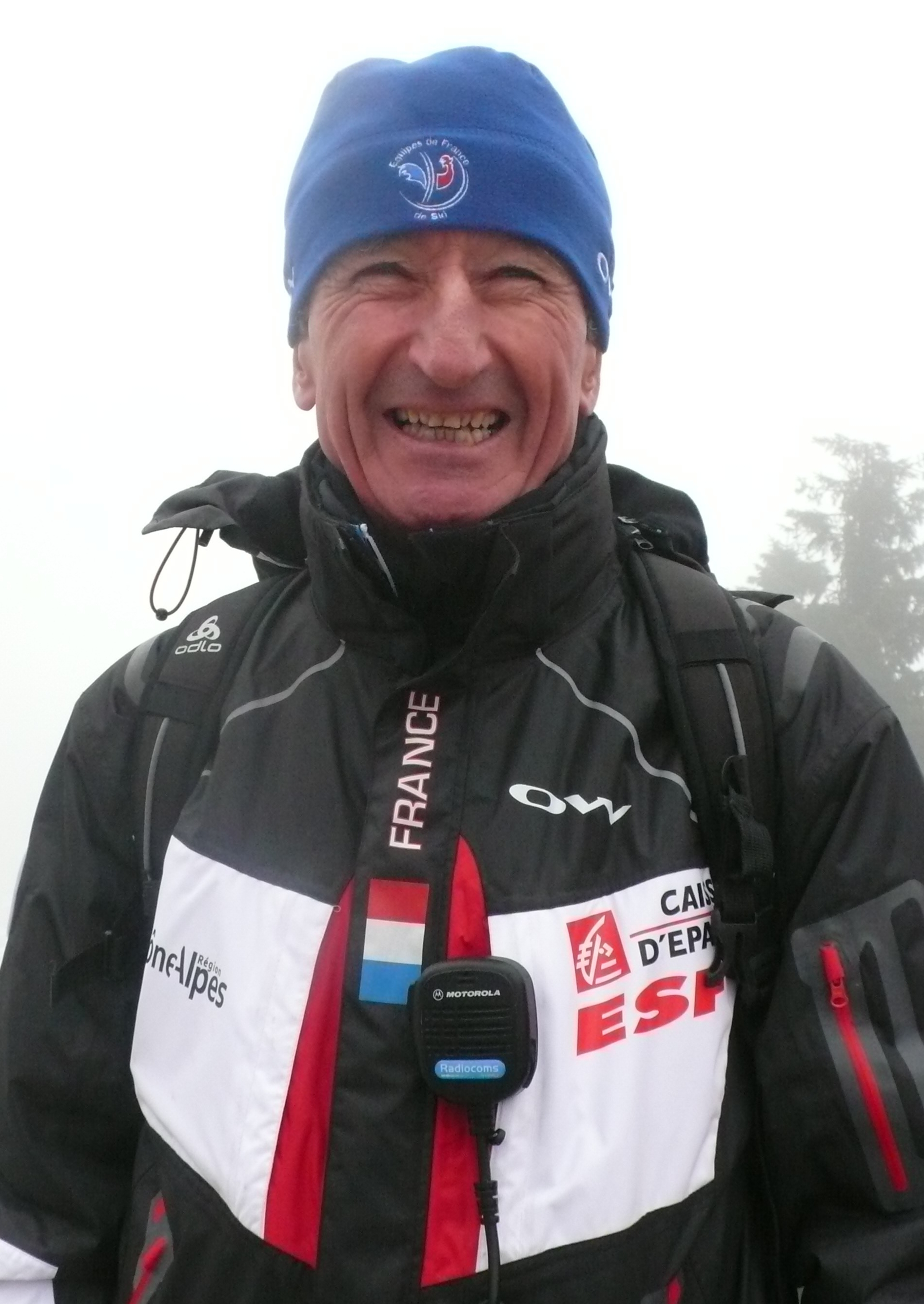 Jacques Gaillard, coach of the feminine skijumping team from theFrance, Braunlage, 2011